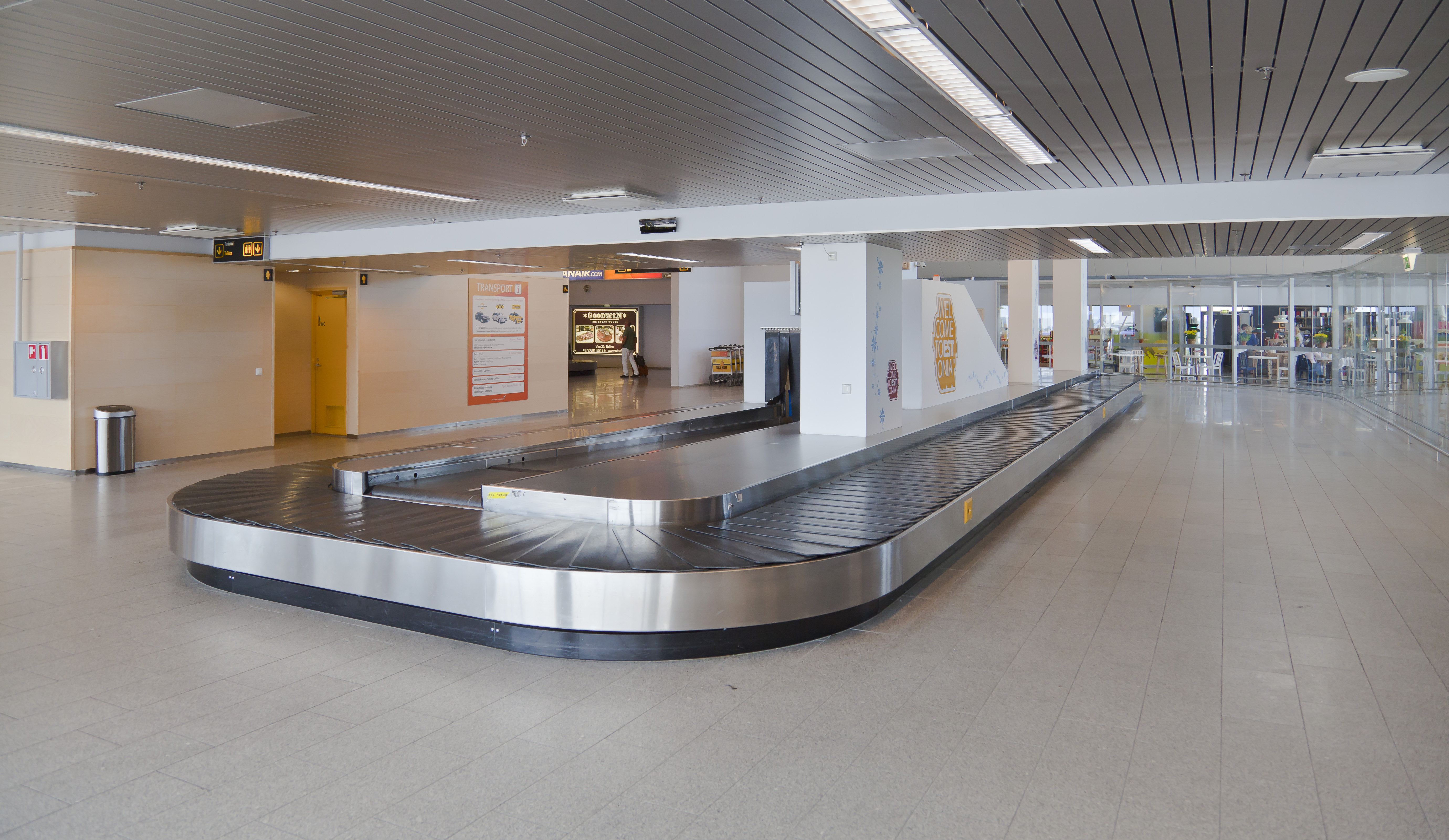 International Tallinn Airport, Estonia